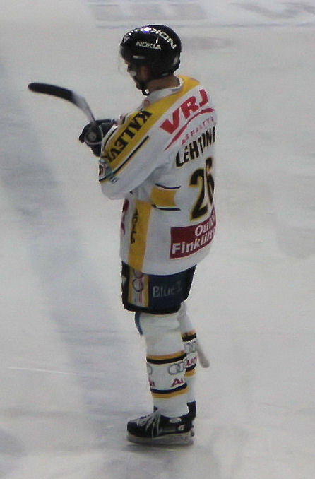 Ice hockey player Mikko Lehtonen of Kärpät Oulu